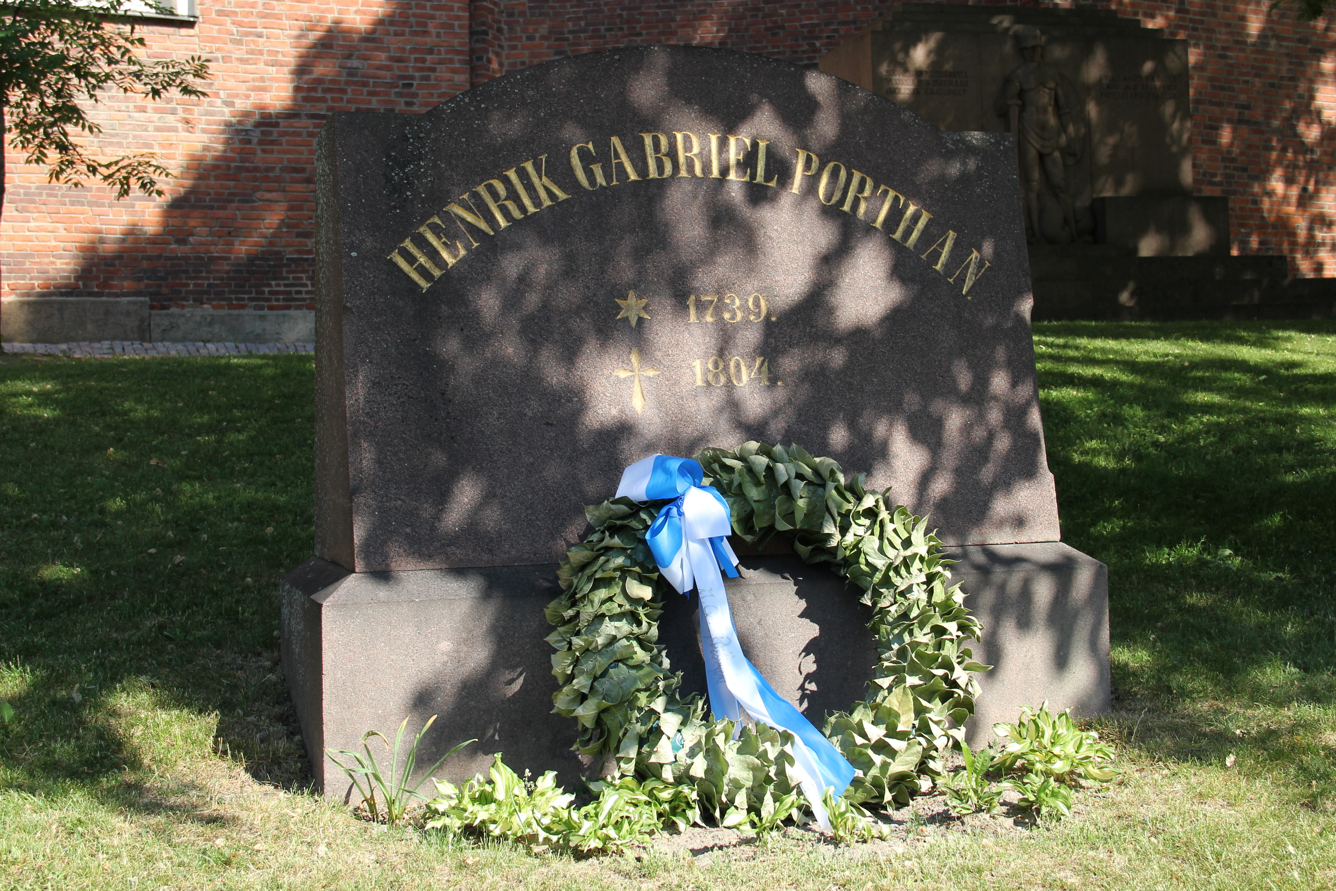 Henrik Gabriel Porthan grave memorial, near Turku Cathedral, Turku, Finland. - Memorial was donated by Royal Academy of Turku in 1804. It's designer is unknown.